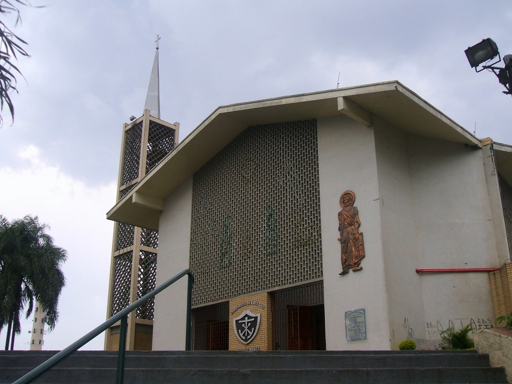 Church of São José do Jaguaré, in Jaguaré District, São Paulo City, Brazil